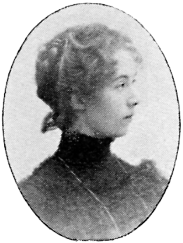 Image scanned from the book "Svenskt Porträttgalleri XX - Arkitekter, Bildhuggare, Målare m.fl. " ("Swedish Portrait Gallery XX - Architects, Sculptors, Painters, ") published 1901